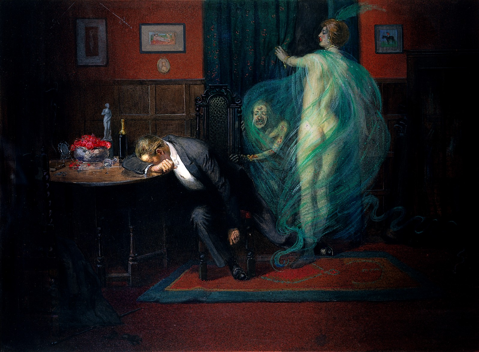 Gouache and watercolour on board: 'Syphilis' Iconographic Collections Keywords: Syphilis; Richard Cooper